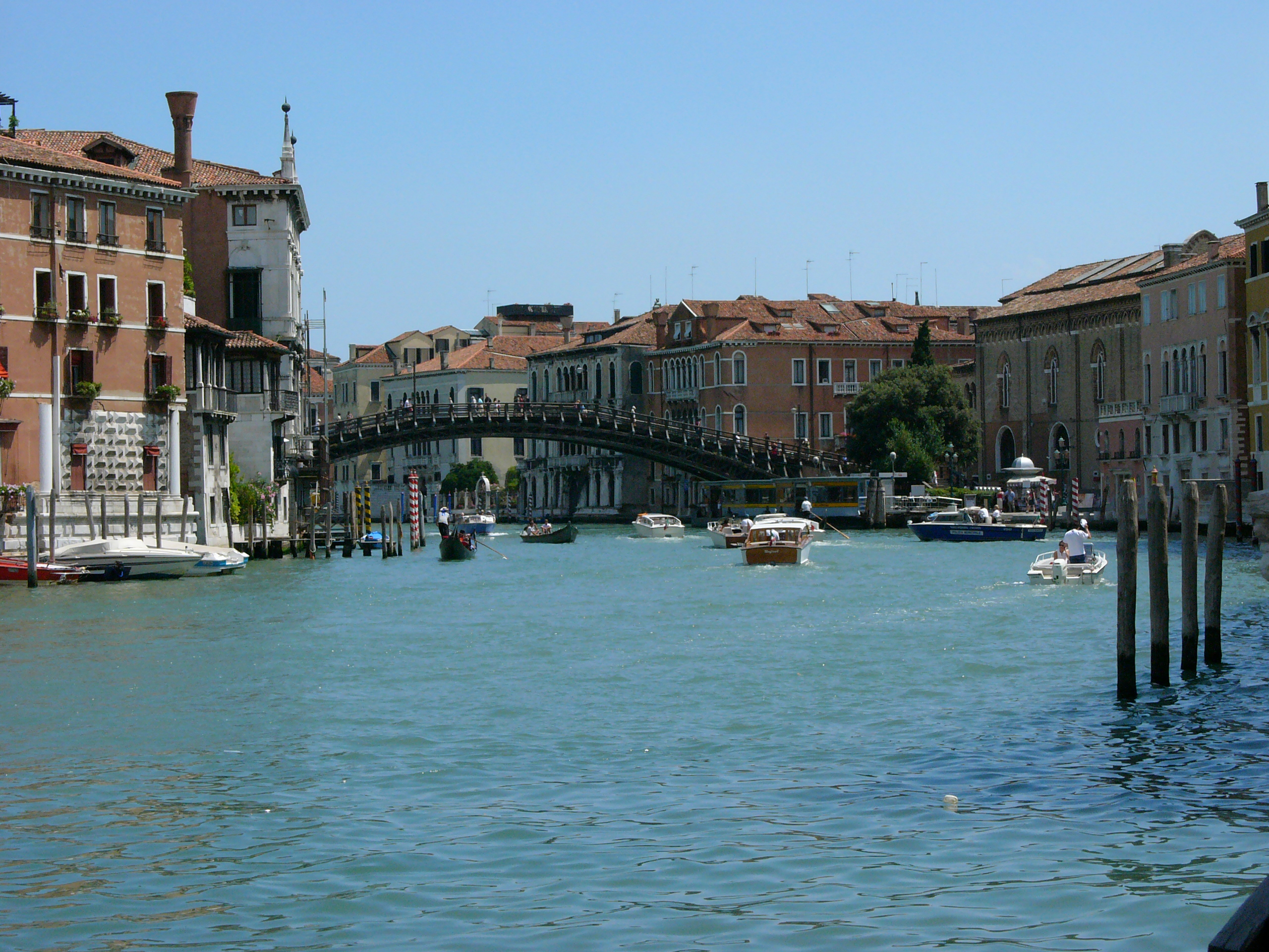 The Accademia bridge in Venice.